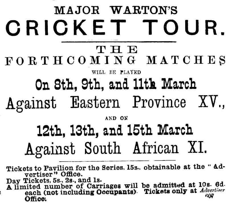 Taken from but the copyright has expired - dated 1889